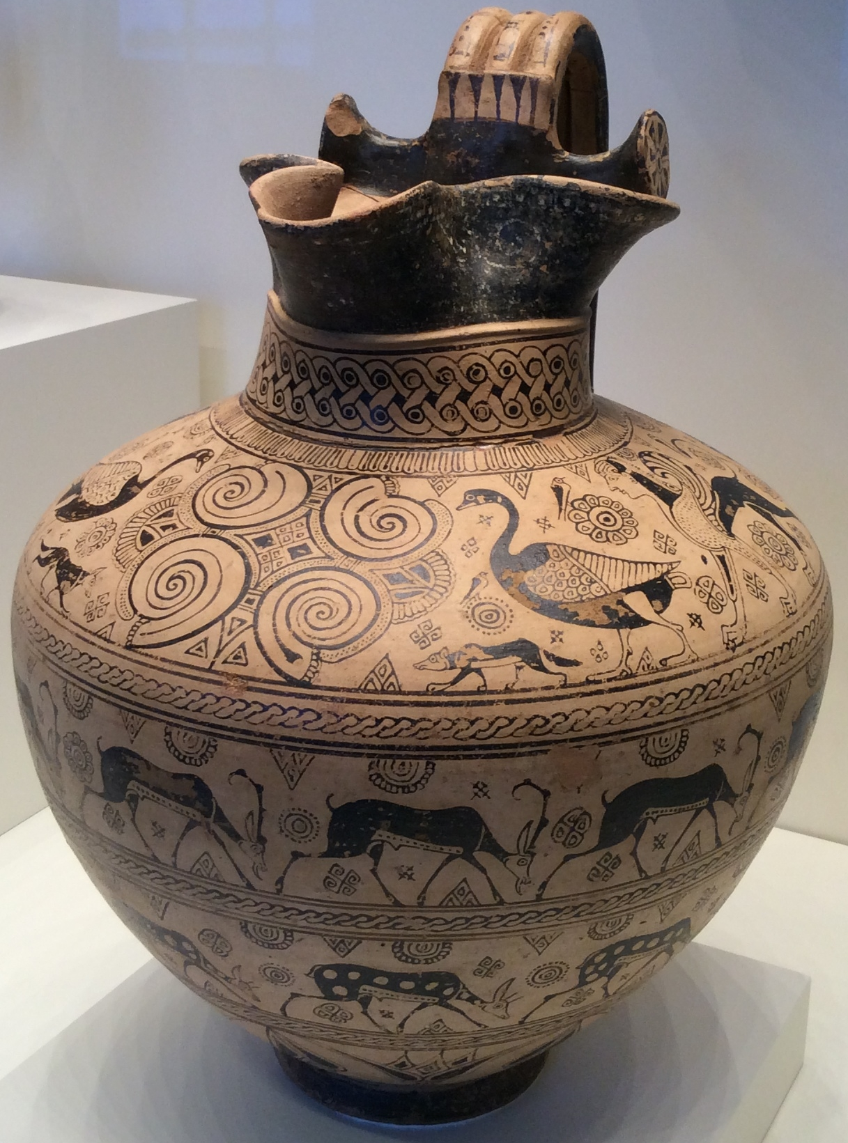 Oinochoe with images of animals. Getty Villa 81.AE.83